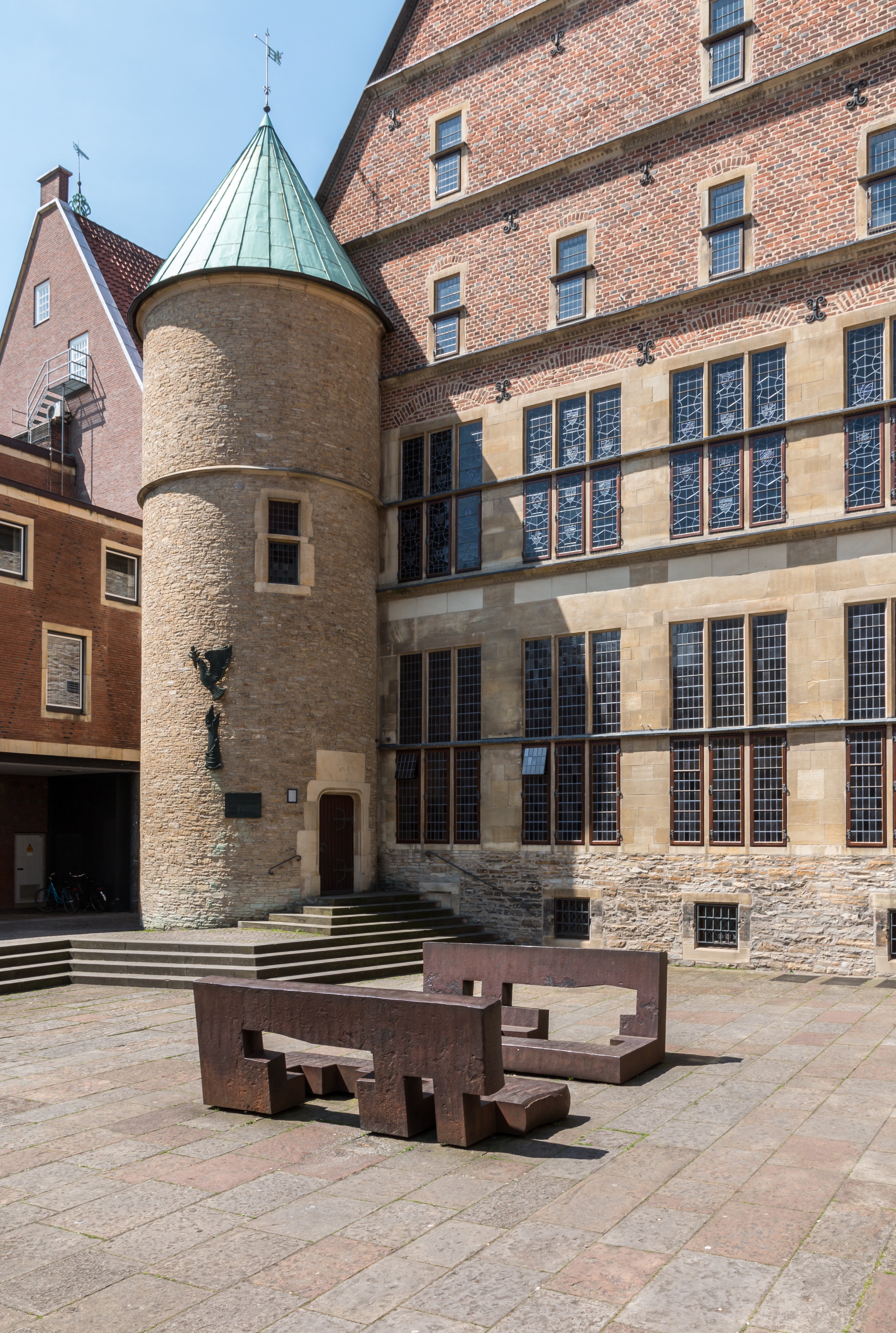 Sculpture “Toleranz durch Dialog” (Eduardo Chillida, 1993) at Platz des Westfälischen Friedens (City Hall courtyard) and also sculpture “Friedenstaube” (Rudolf Breilmann, 1966), Münster, North Rhine-Westphalia, Germany Sculpture TitleToleranz durch DialogArtistEduardo ChillidaDate1993 Sculpture TitleFriedenstaubeArtistRudolf BreilmannDate1966